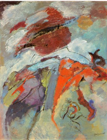 Edmond Boissonnet huile sur toile.